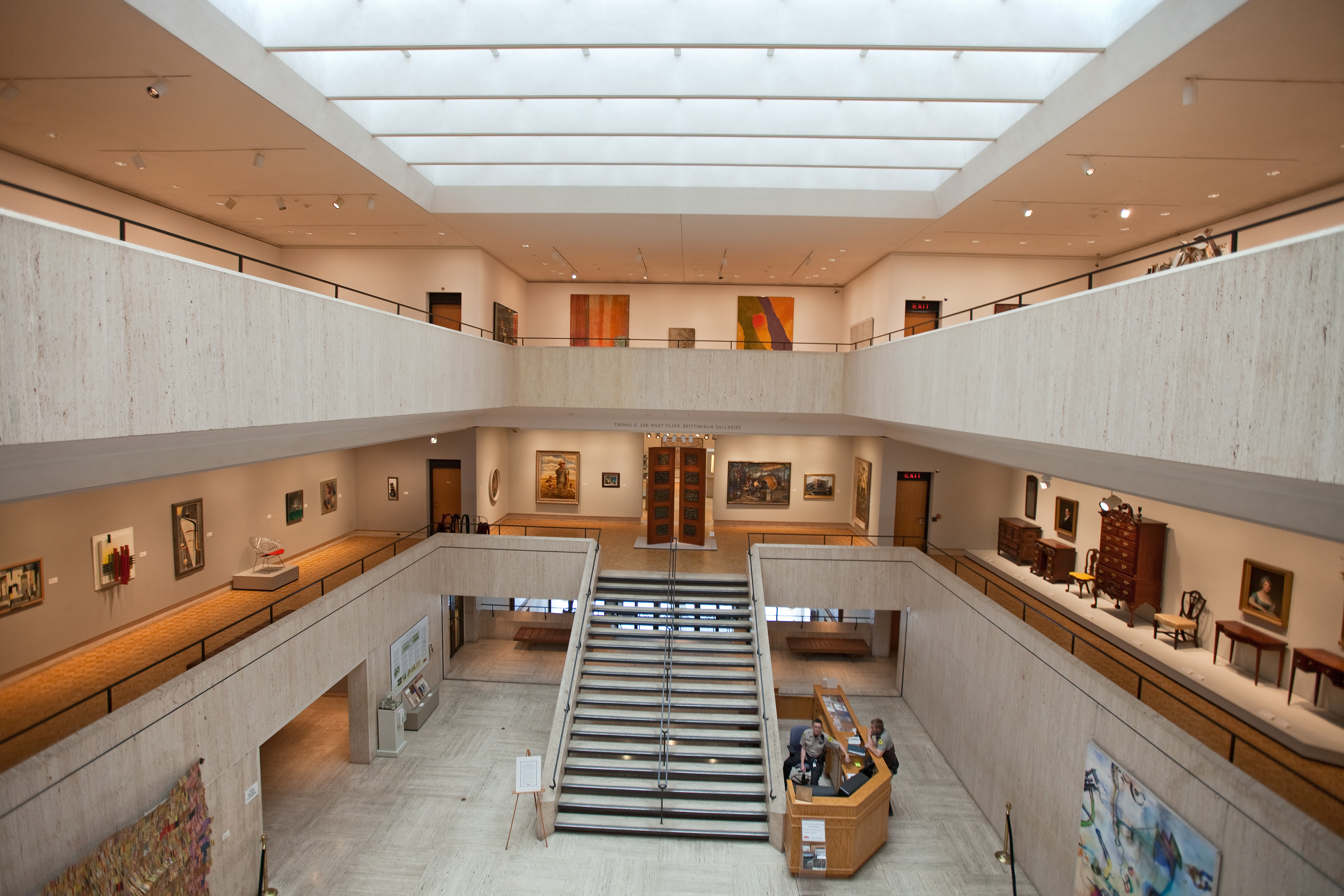 Inside Chazen Museum of Art, University of Wisconsin-Madison.